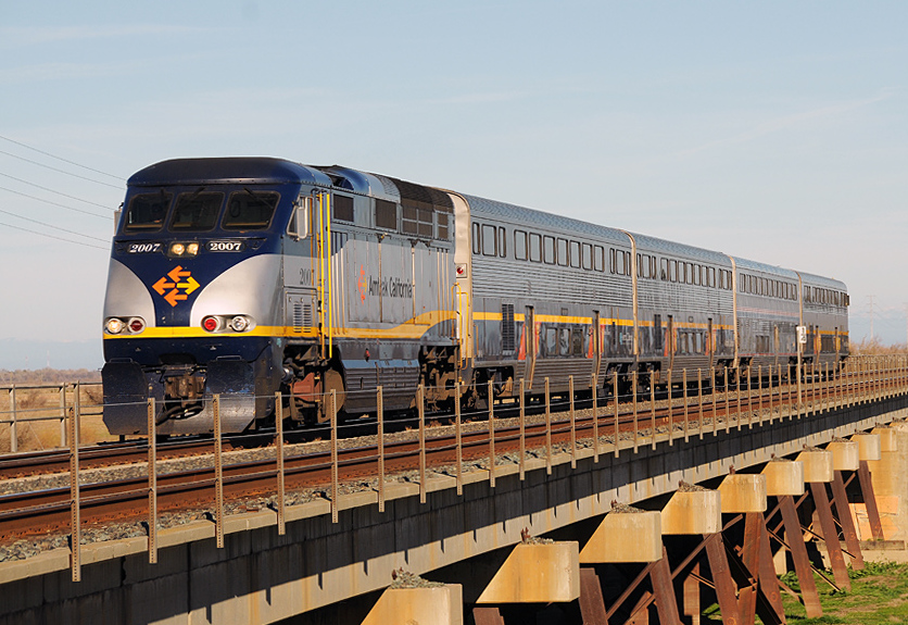 A westbound Capitol Corridor train at Webster (West Causeway) in February 2012